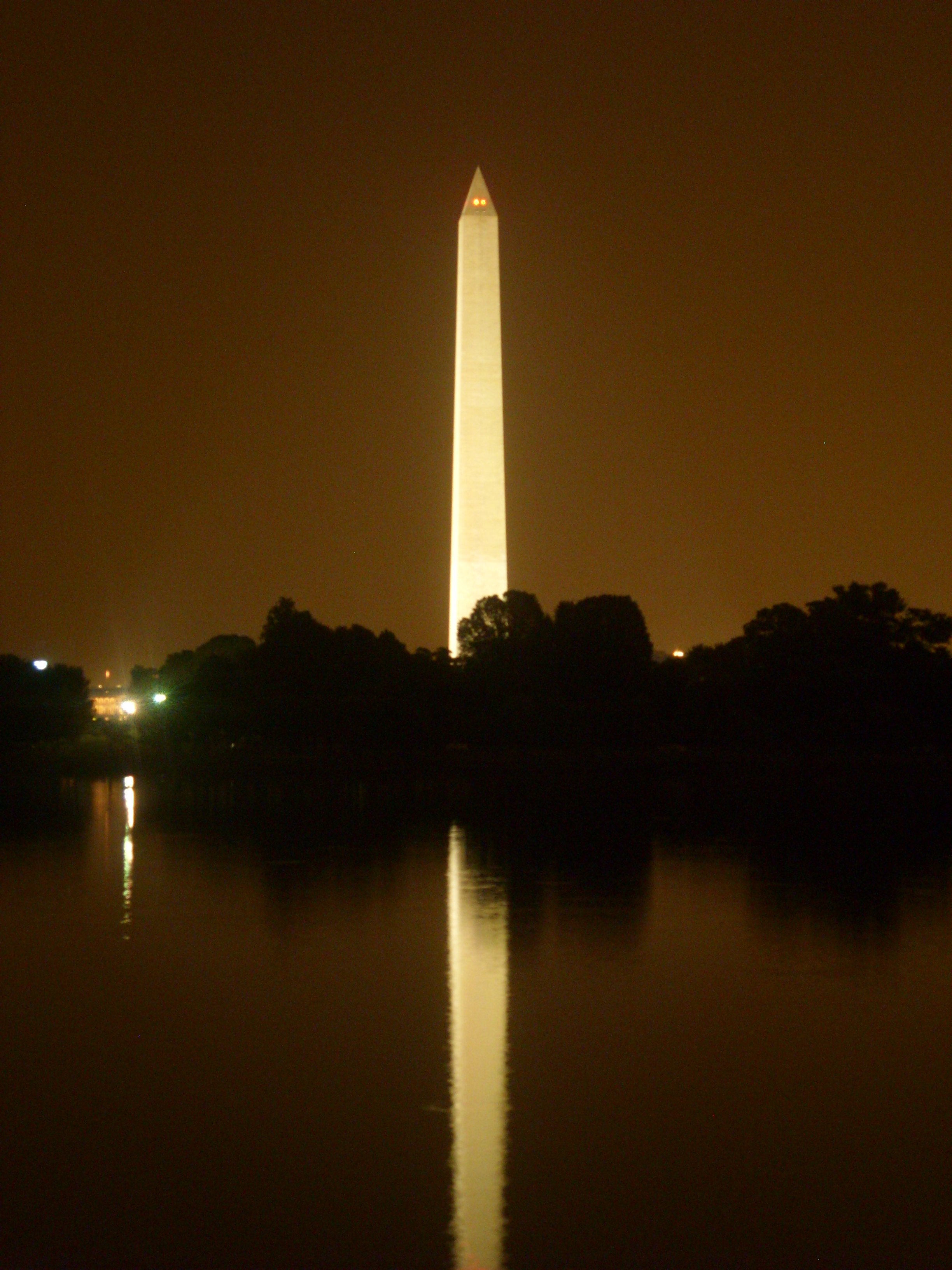 Author: Brian Young (bravesfan8456) Taken: 8/25/08, Washington, DC Description: Washington Monument at night from the Jefferson Memorial, reflecting in the Tidal Basin.